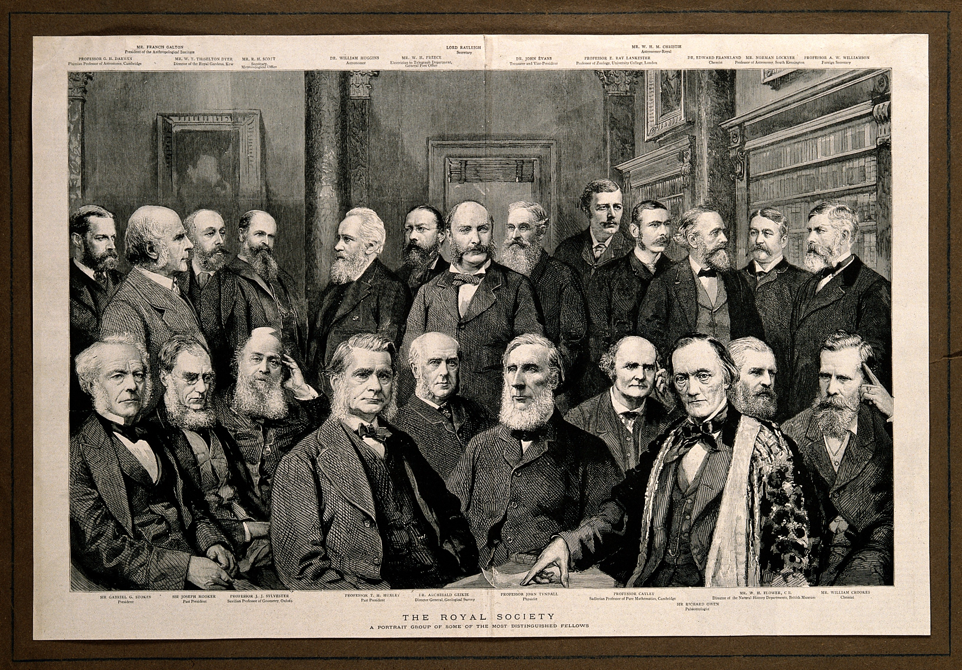 Wood engraving, 1885. The Royal Society - a Portrait group of some of the most distinguished fellows Names at the top row (standing): Professor G. H. Darwin - Plumbian Professor of Astronomy, Cambridge Francis Galton - President of the Anthropological Institute Mr. W.T. Thiselton Dyer - Director of the Royal Gardens, Kew Mr. R. H. Scott - Secretary, Meteorological Office Dr. William Huggins - Astronomer Mr W. H. Preece - Electrician to Telegraph Department, General Post Office Lord Rayleigh - Secretary, Physicist Dr. John Evans - Treasurer and Vice-President Professor E. Ray Lankester - Professor of Zoology, University College, London Mr. W.H.M. Christie - Astronomer Royal Dr. Edward Frankland - Chemist Mr. Norman Lockyer - Professor of Astronomy, South KEnsington Professor A.W.Williamson - Foreign secretary, Chemist Names at the bottom row (sitting): Sir Gabriel G. Stokes - President Sir Joseph Hooker - Past president Professor J.J. Sylvester - Savilian Professor of Geometry, Oxford Professor T.H. Huxley - Past president Dr. Archibald Geikie - Director General Geologic Survey Professor John Tyndall - Physicist Professor Cayley - Sadlerian Professor of Pure Mathematics, Cambridge Sir Richard Owen - paleontologist Mr W.H.Flower, C.B - Director of the Natural History Departments, British Museum Mr. William Crookes - Chemist